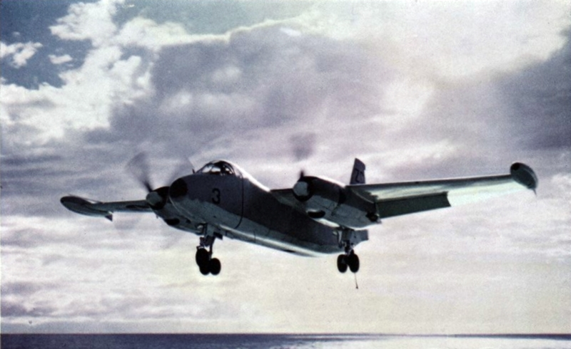 A NOrth American AJ-2 Savage (BuNo 134059) from Heavy Attack Squadron VAH-6 Det.I "Fleurs" approaching the flight deck of the U.S. Navy aircraft carrier USS Hancock (CVA-19). VAH-6 Det.I was assigned to Air Task Group 2 (ATG-2) aboard Hancock for a deployment to the Western Pacific from 6 April to 18 September 1957.